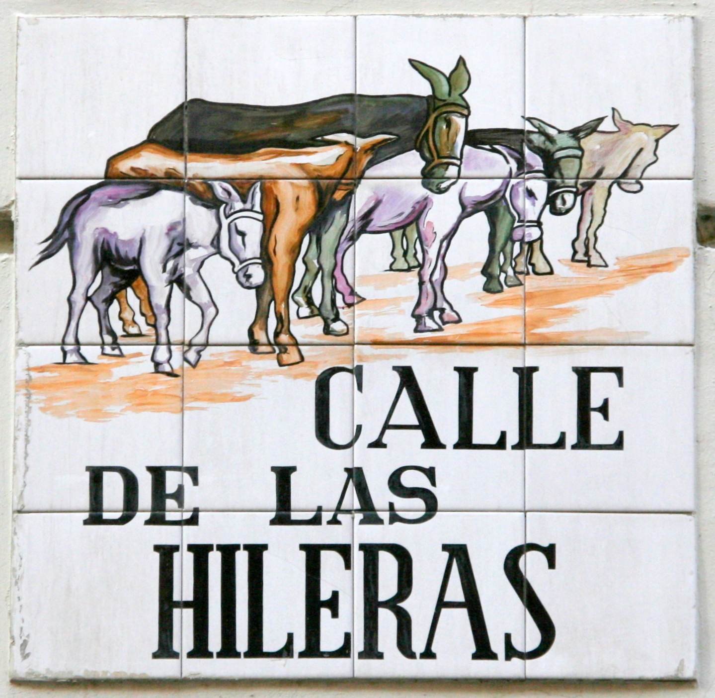 Placa de la calle de las Hileras